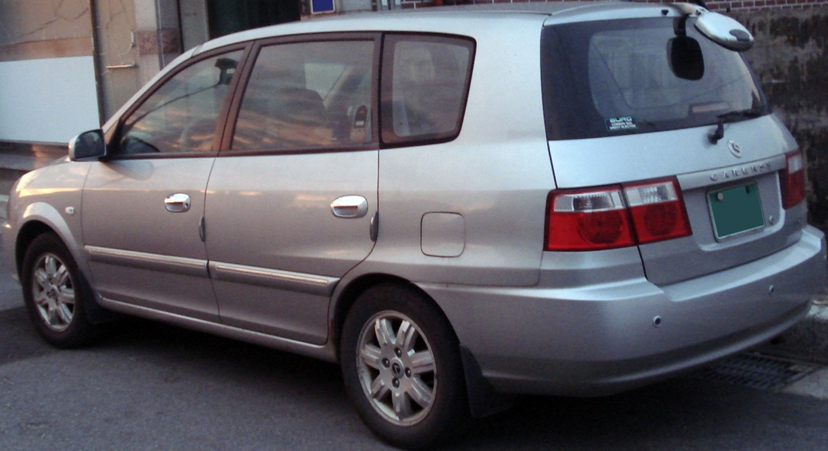 Kia Carens Ⅱ